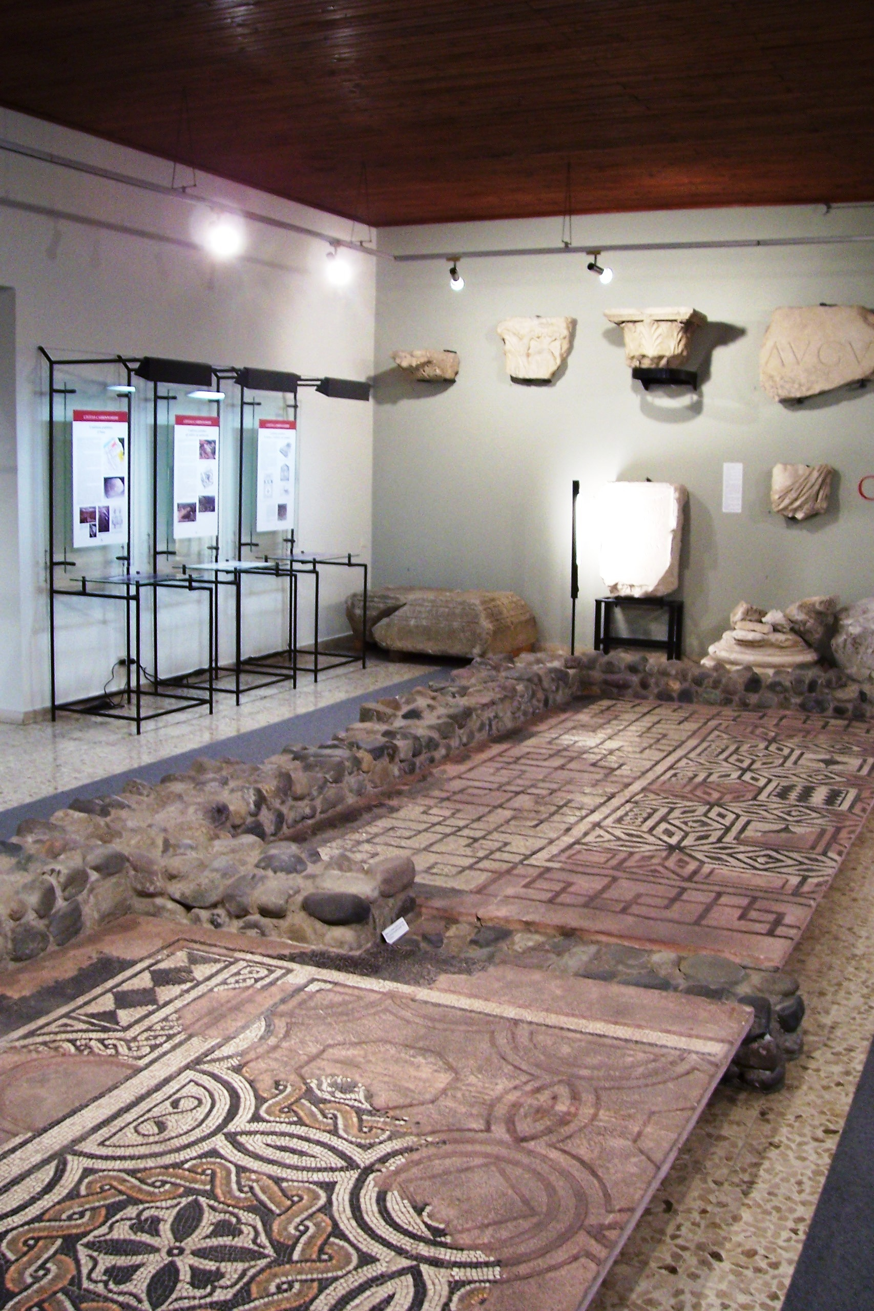 Museo archeologico di Valle Camonica, Cividate Camuno, Italia